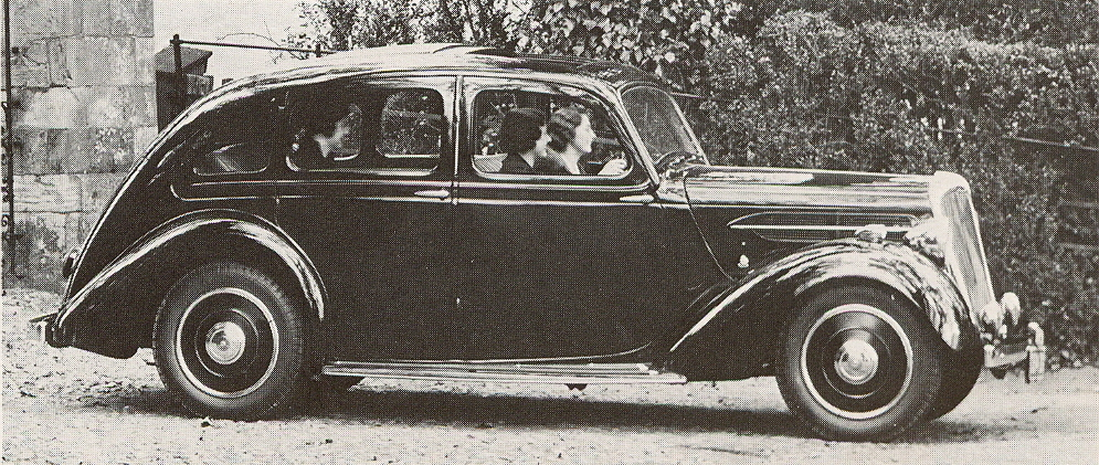 1936 Standard Flying Twenty